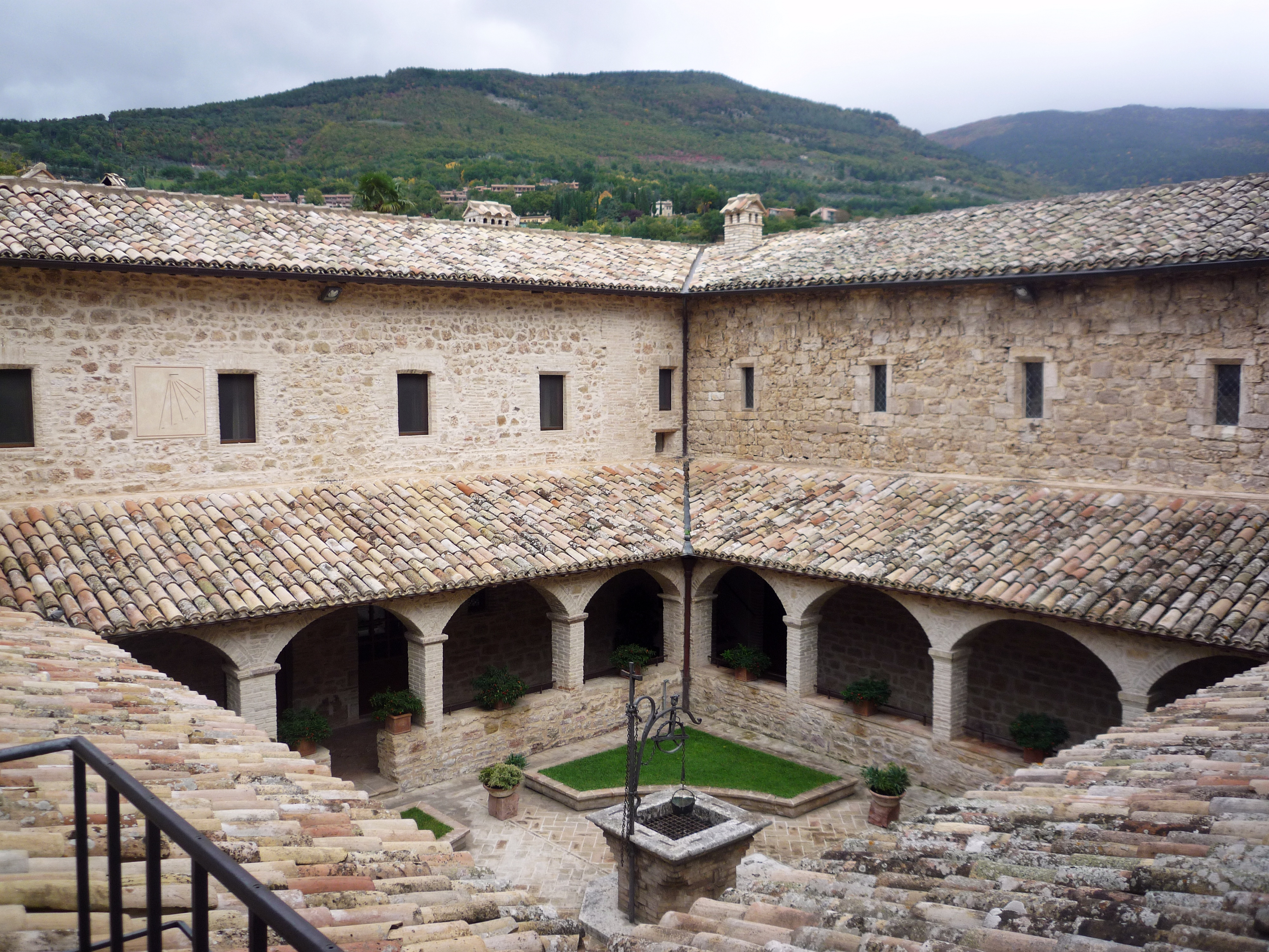 San Damiano, Assisi - cloister